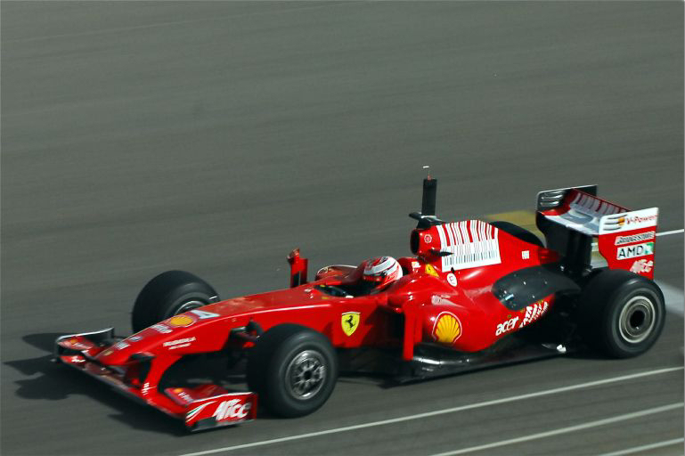 Raikkonen at F1 2009 Pre-Season testing in Bahrain International Circuit. Massa and Kimi